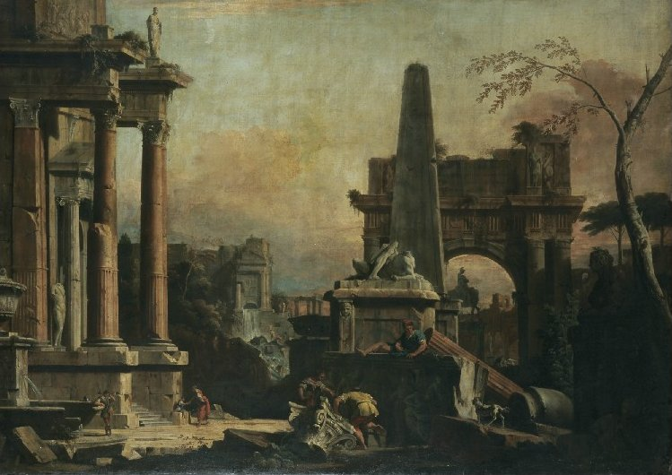 A Capriccio of Classical Rome